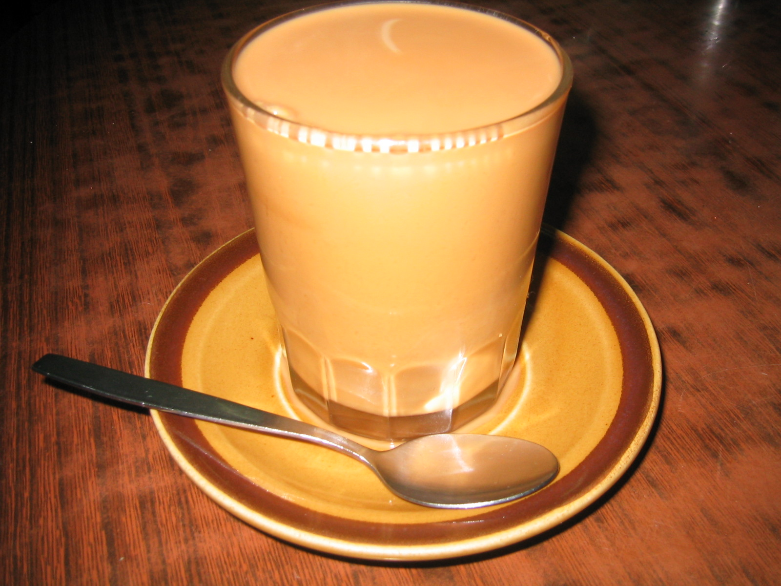 A glass of Hong Kong-style milk tea